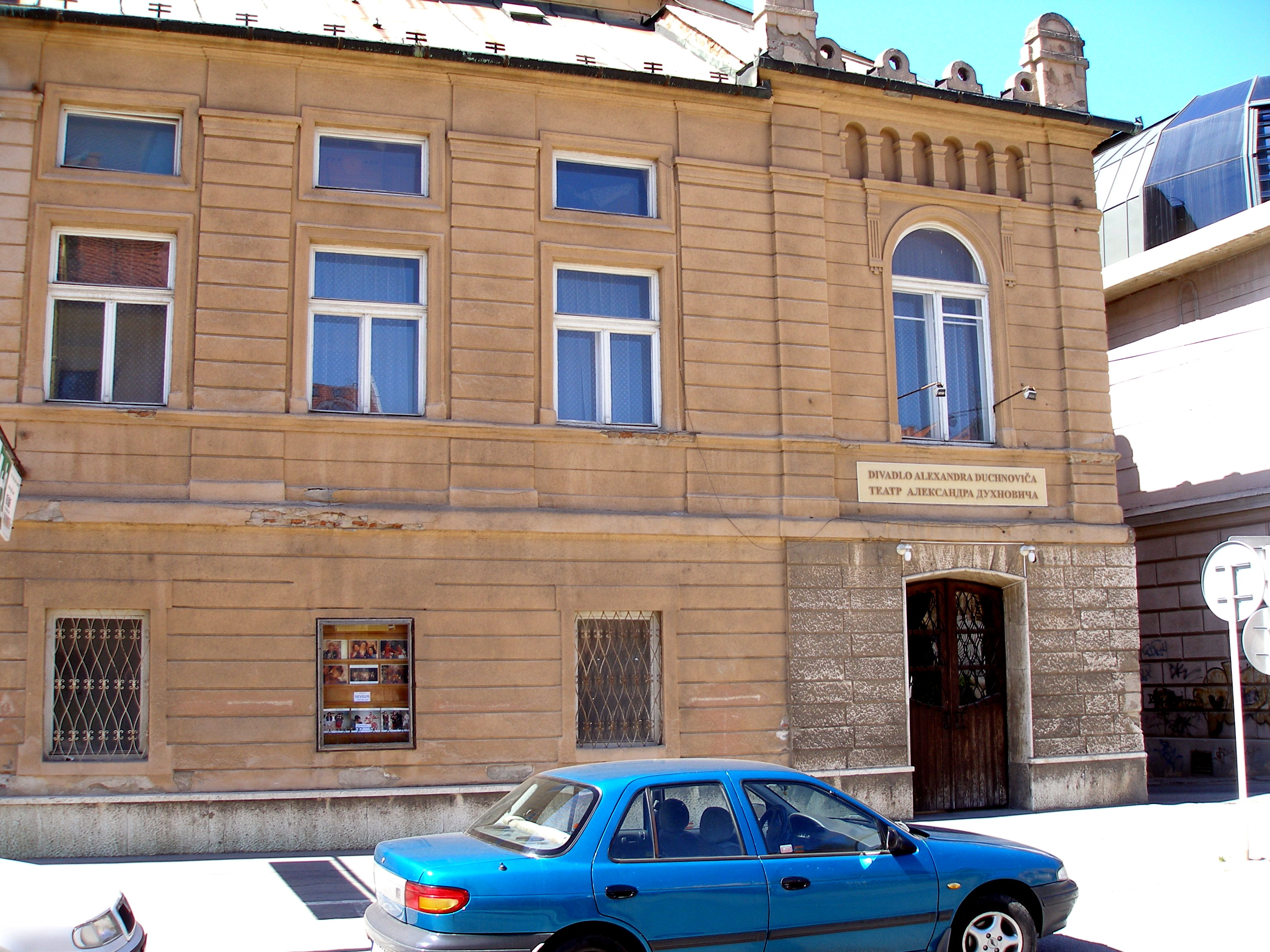 Budova stálej scény Divadla Alexandra Duchnoviča v Prešove This medium shows the protected monument with the number 707-3349/0 (other) in the Slovak Republic.